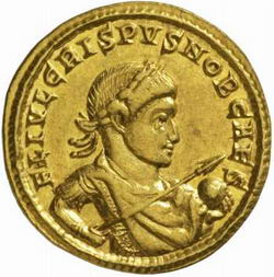 Roman coin depicting Crispus